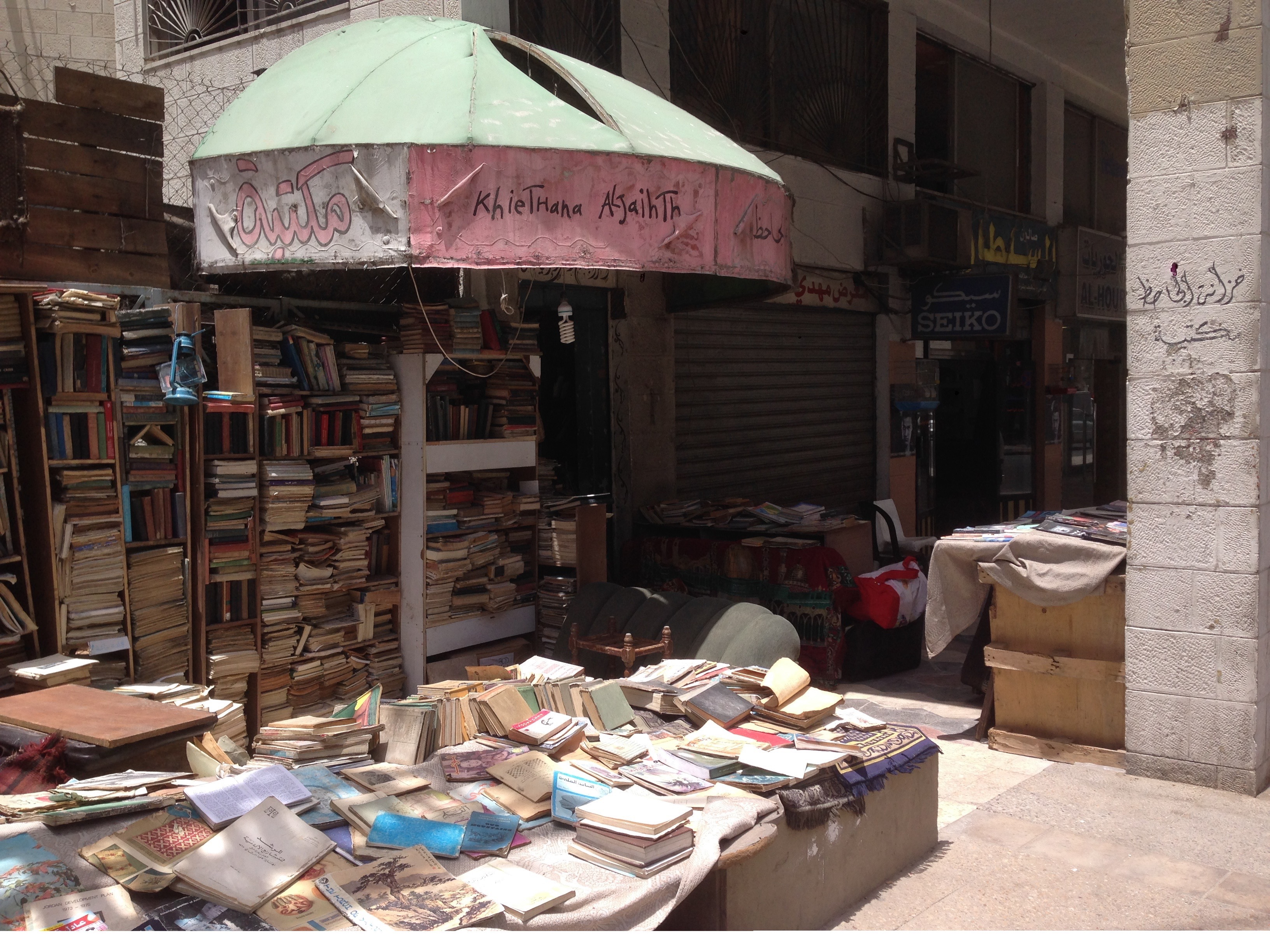 Photo of al-Jahith's Treasury (Nymphaeum Branch), taken in June 2016.